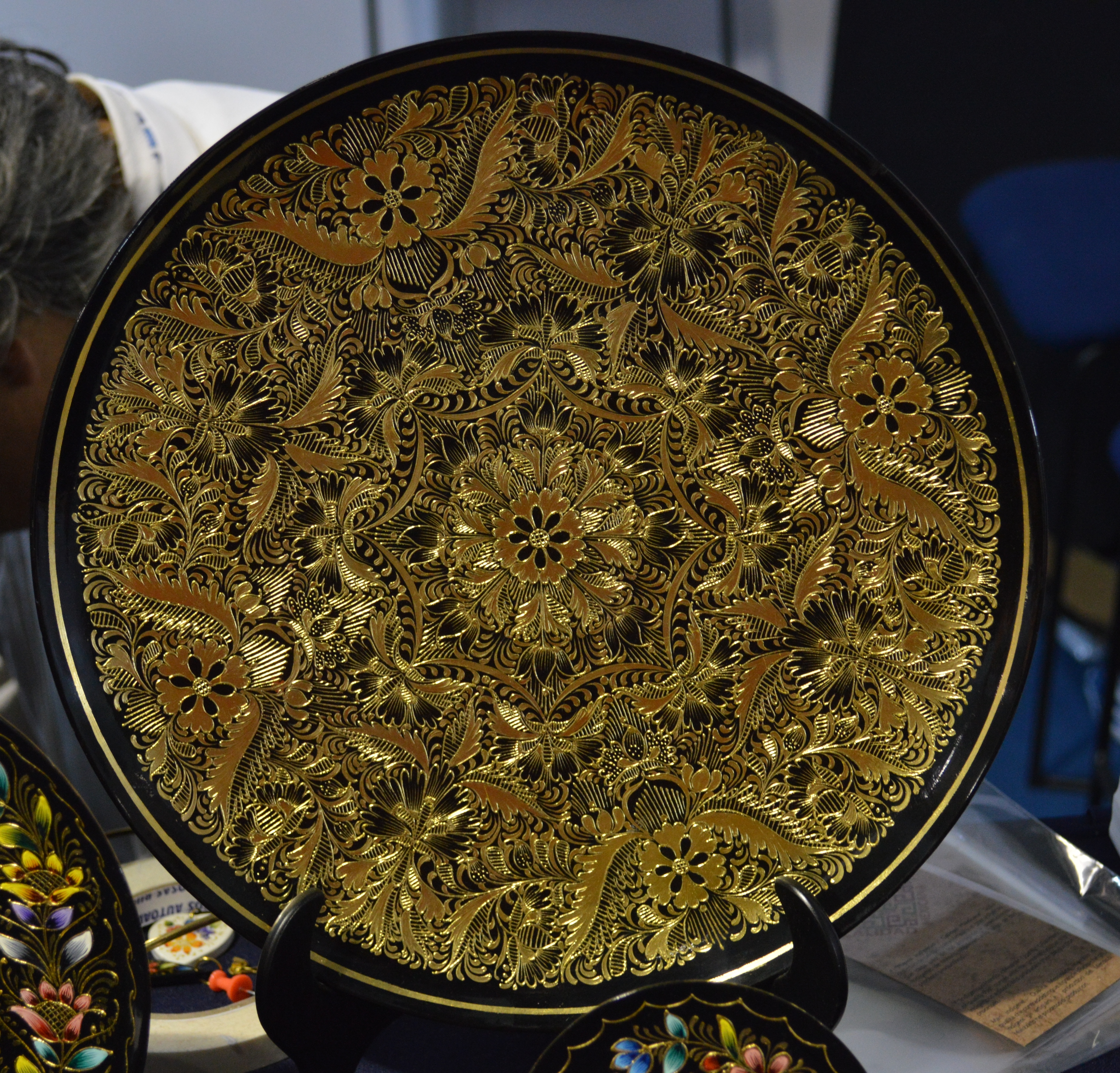 Gold inlaid laquer piece from the workshop of Mario Agustín Gaspar in Patzcuaro, Michoacan at the Expo de los Pueblos Indígenas in Mexico City